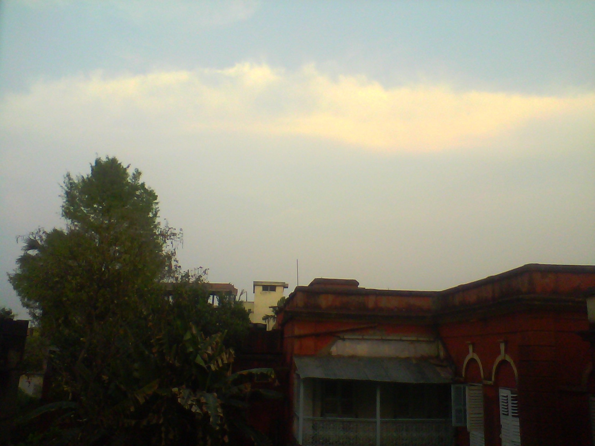 The Image is of the skyline of town Rishra